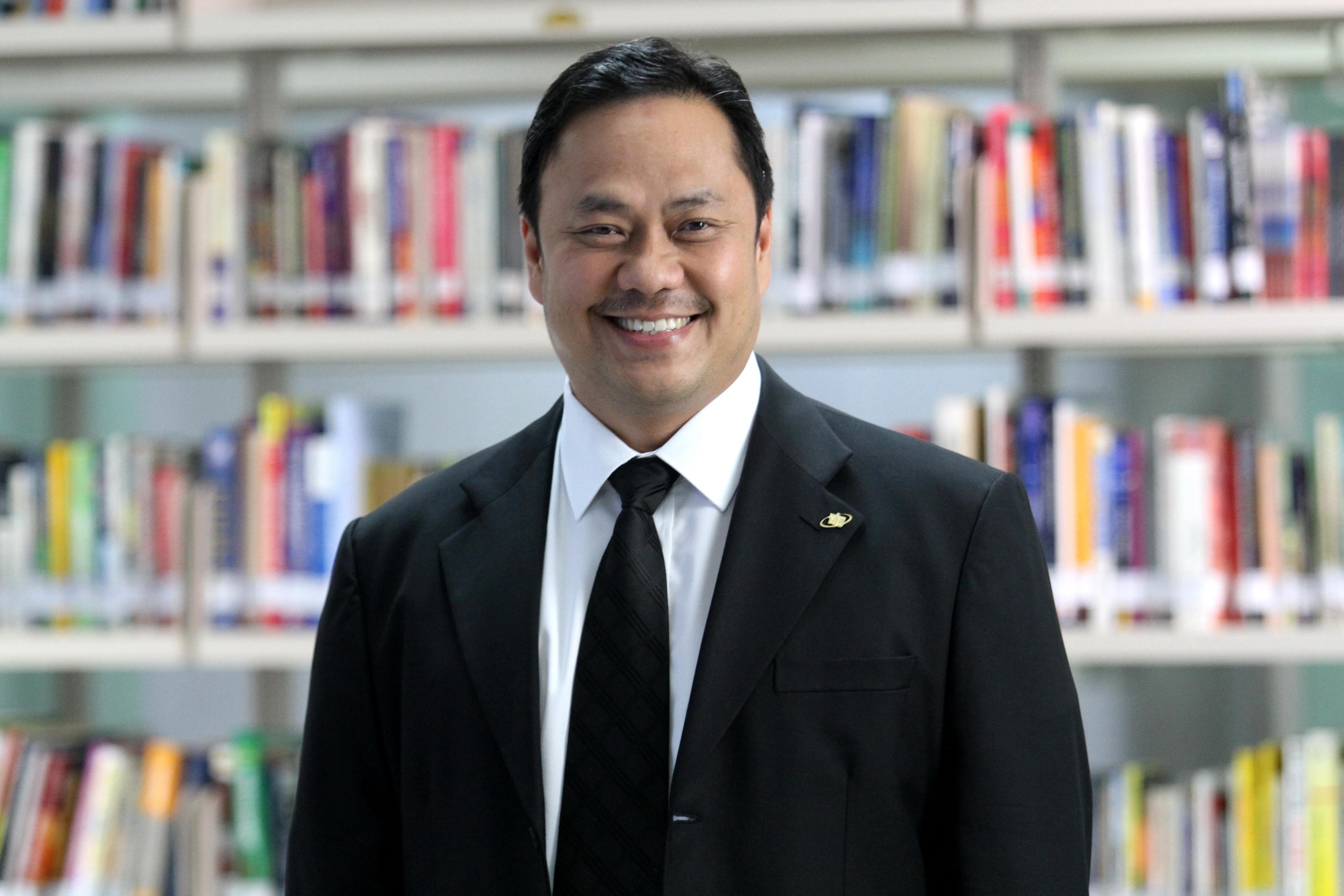 A picture profile of Ary Ginanjar AgustianBahasa Indonesia: Foto profil dari Pak Ary Ginanjar Agustian